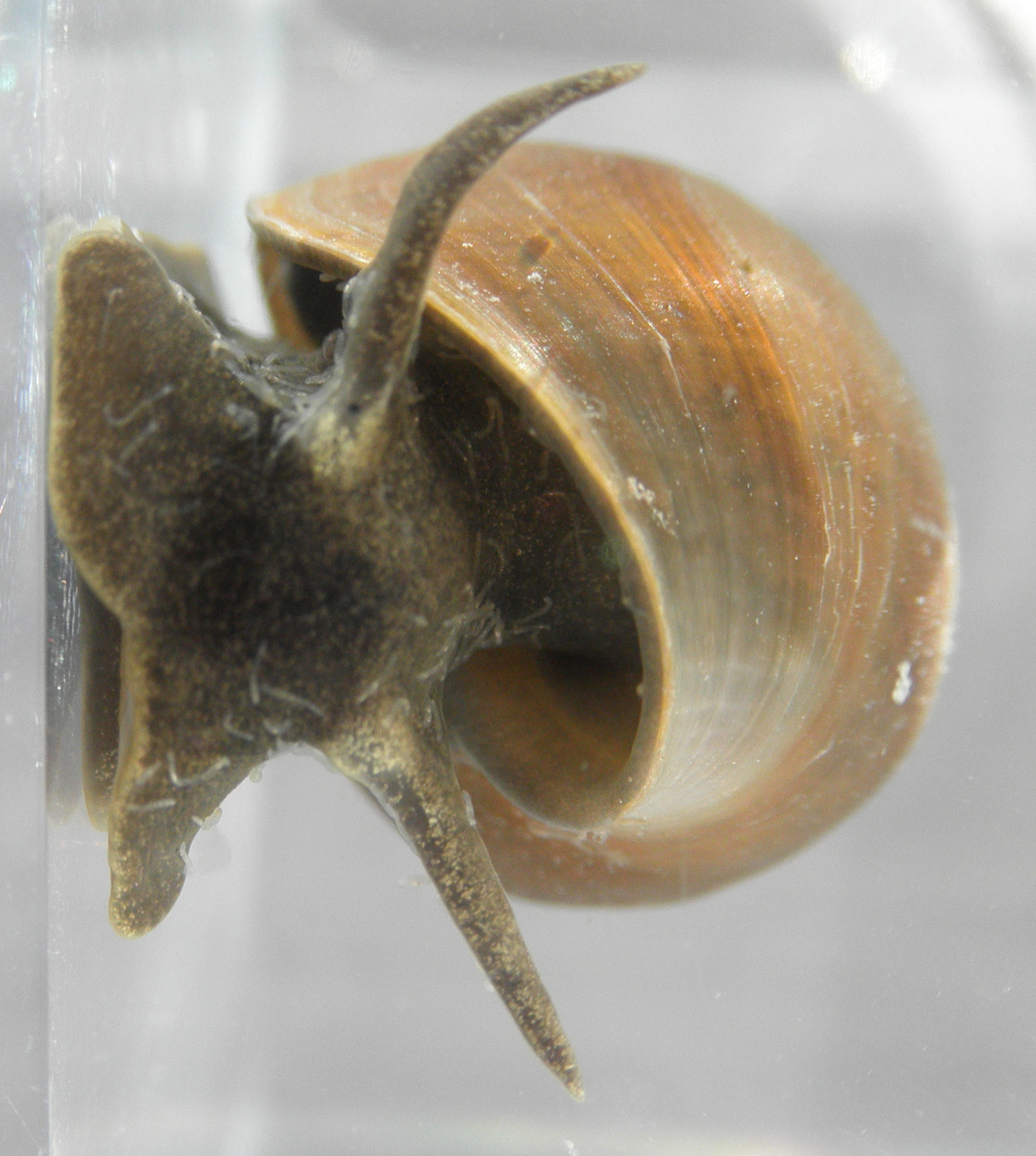 Photo of numerous Chaetogaster limnaei limnaei on Lymnaea stagnalis.